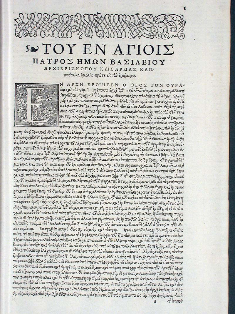 First page of a 1551 edition of the works of St. Basil of Caesarea, edited by Janus Cornarius and Julius Pflug, published by Froben